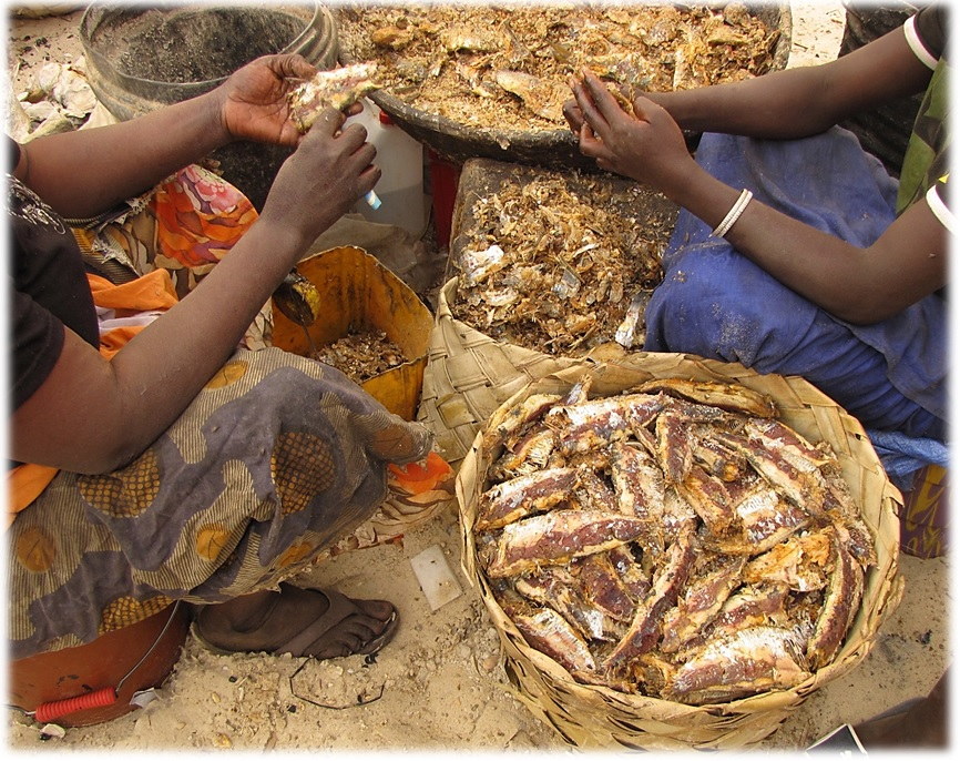 After being packed in barrels of course sea salt, the dried fish are removed and scraped, ready then to be sold. Cured, dry kéthiakh, seen also as kethiakh (Wolof language)spelled also as keccax (as per Senegalese official alphabet) produced in Saint-Louis is packed and sold all over the country of Senegal, a popular flavoring in dishes such as Mbakhalou saloum, even eaten as is.